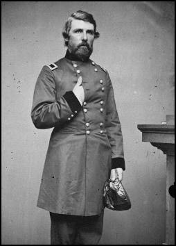 Portrait photograph of Charles Smith Hamilton.